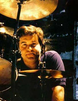 Simon Wright, shot during AC/DC's Blow Up Your Video tour.